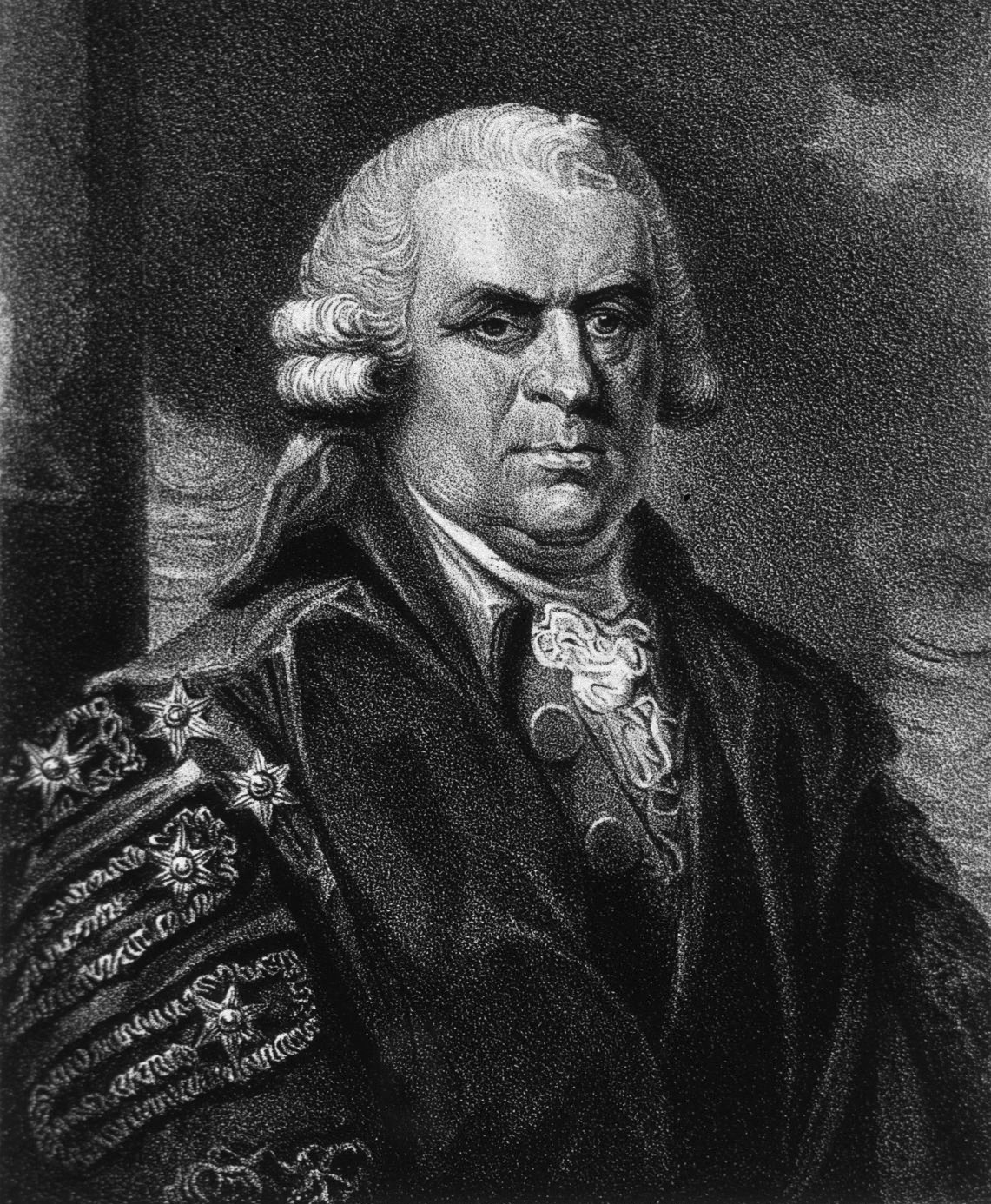 George Baker, Bt, MD, FRS, FSA (1 January 1722 – 15 June 1809)